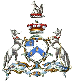 Baron Holland - Coat of Arms From Burke's General Armory: Fox (Lord Holland, created 1762, extinct 1859; descended from the Right Hon. Sir Stephen Fox, Lord Commissioner of the Treasury to King Charles II., d. 28 Oct. 1716; granted at Brussels by Sir Edward Walker, Garter, 30 Oct. 1658). Arms: Ermine on a chevron azure three foxes' heads erased or, on a canton of the second a fleur-de-lis of the third. Crest: On a chapeau azure turned up ermine a fox sejant or. Supporters: Dexter, a fox argent gorged with a collar gobony gu and of the first, thereon three roses of the second, and holding in the mouth a rose slipped and leaved ppr.; sinister, a fox argent gorged as the dexter, chained or. Motto: Et vitam impendere vero.